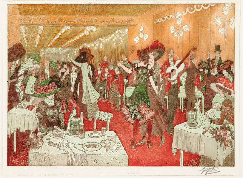 Pierre Gatier : Le Monde de la noce [La Villa Royale, place Pigalle, Paris], etching and mixed technics.